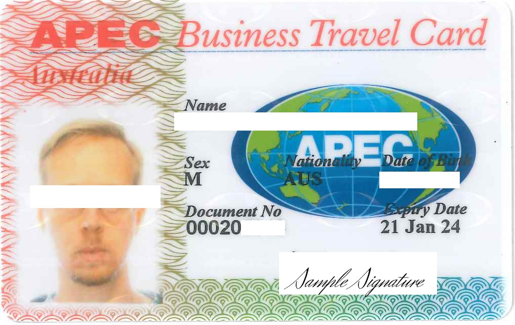 Sample of an Australian APEC Business Travel Card. Scan of my own card containing a passport photo of myself, which I also license under CC by-sa 4.0.